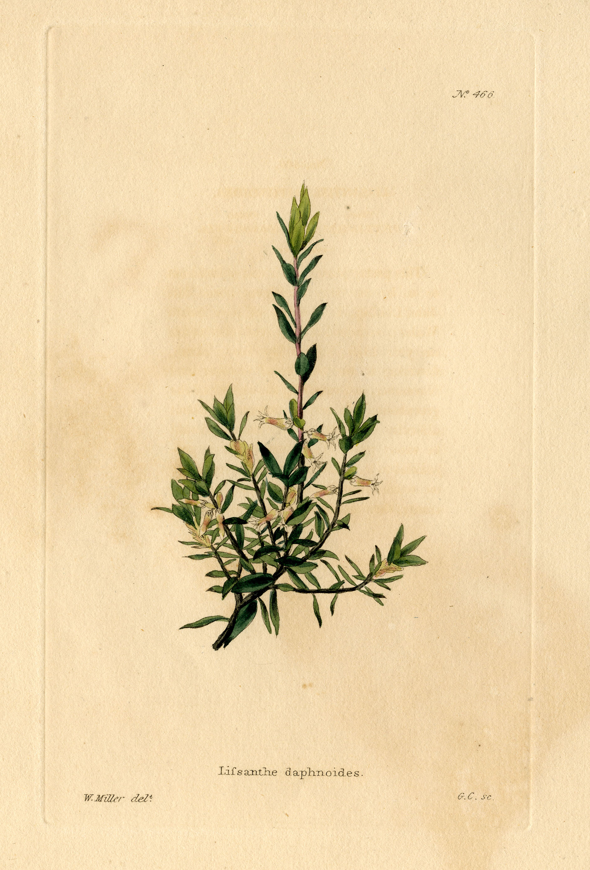 Lissanthe daphnoides (currently Brachyloma daphnoides) drawn by William Miller from "The Botanical Cabinet" (London 1817-1833) plate 466